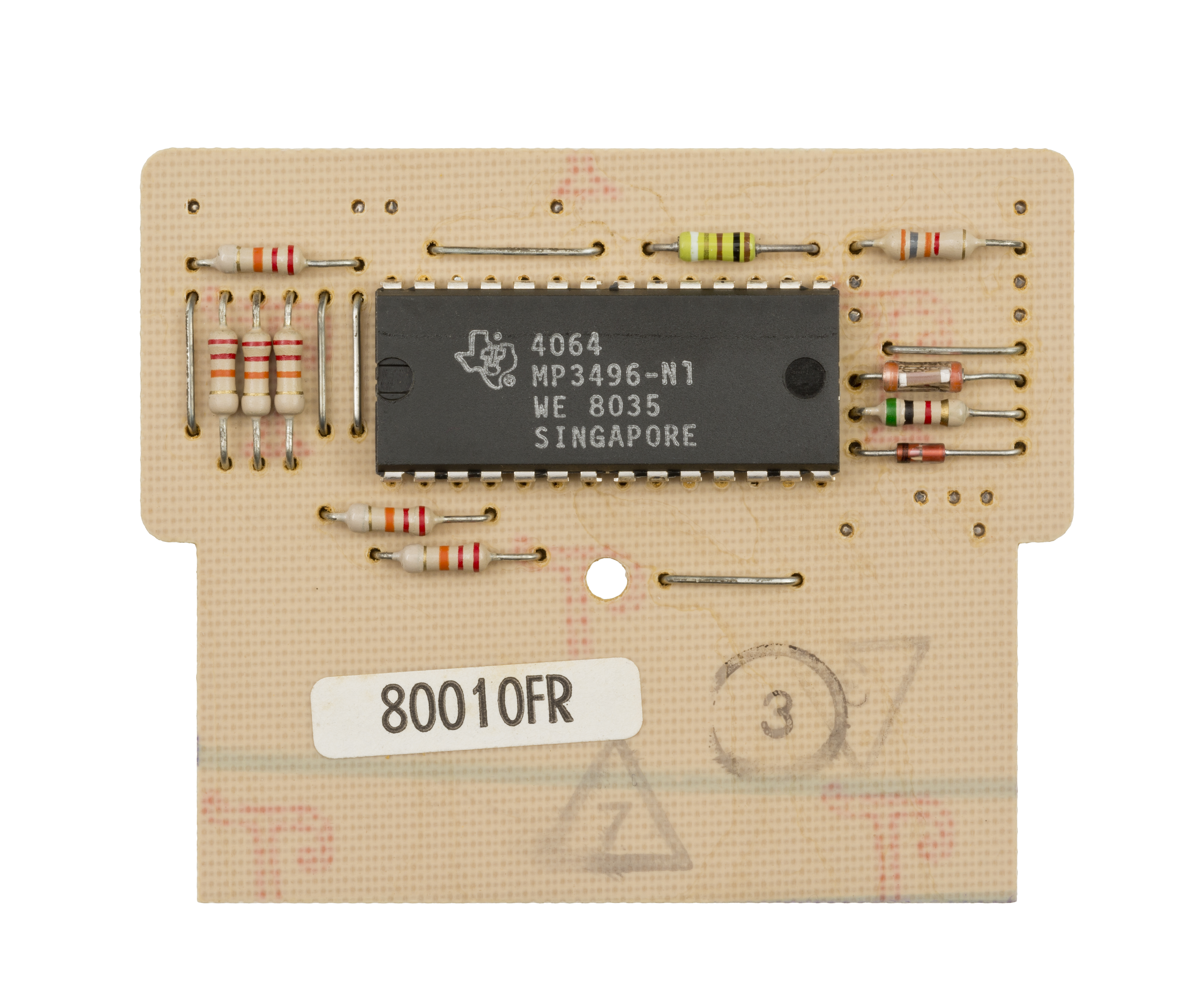 A game cartridge for the Milton Bradley Microvision handheld gaming console from 1979. This picture is the cartridge board itself alone, showing the microprocessor that powers the Microvision and holds the game code.